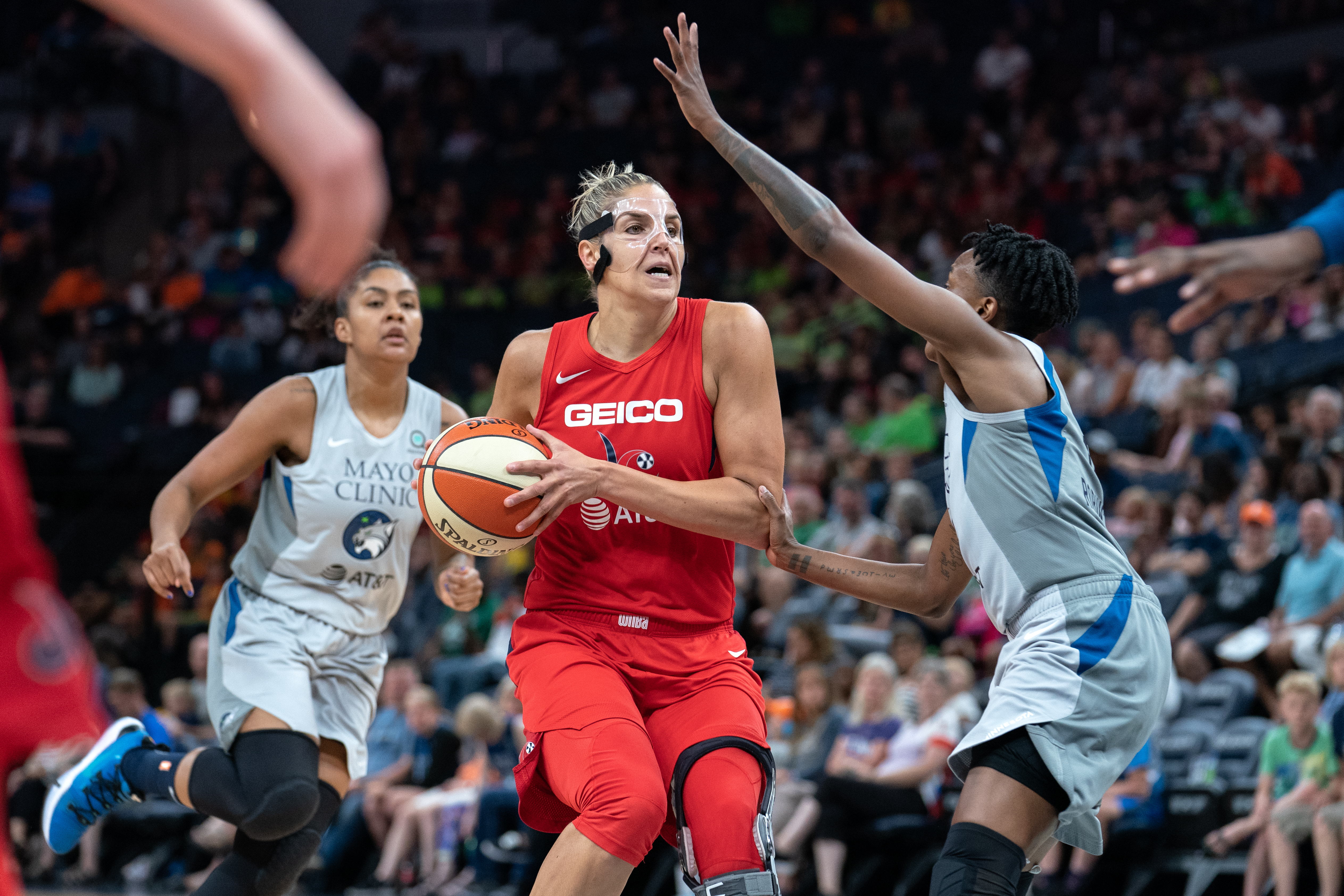 Minnesota Lynx vs Washington Mystics on July 24 2019 at Target Center in Minneapolis, Minnesota; the Mystics won the game 79-71.